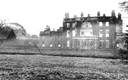 Chaddesden Hall - home of Sir Edward Wilmot. Built around 1730.